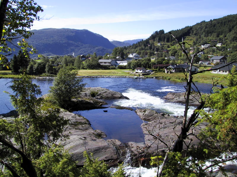 Naustdal, Norway Date: 2000